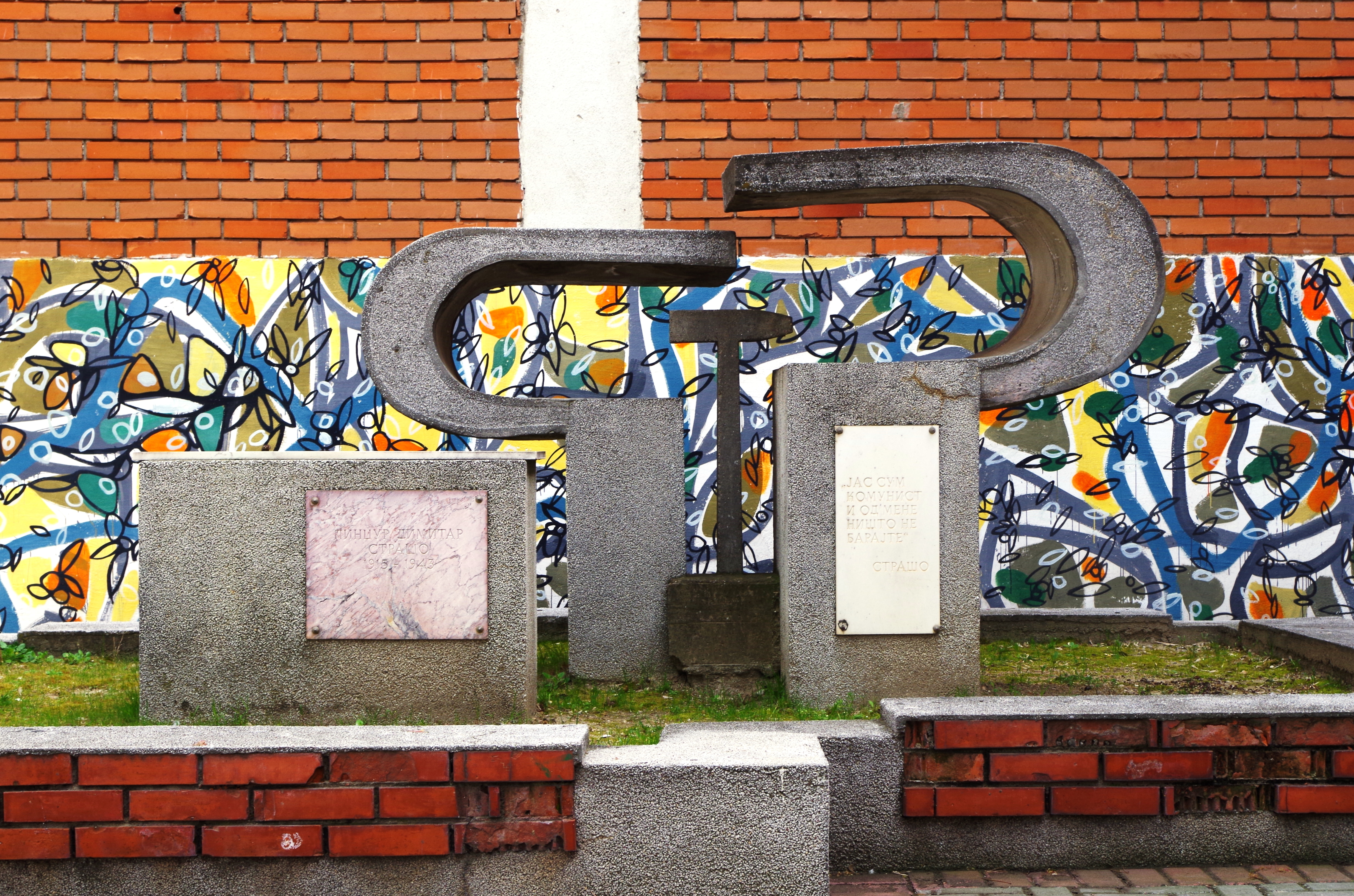 Monument "Strašo Pinđur"